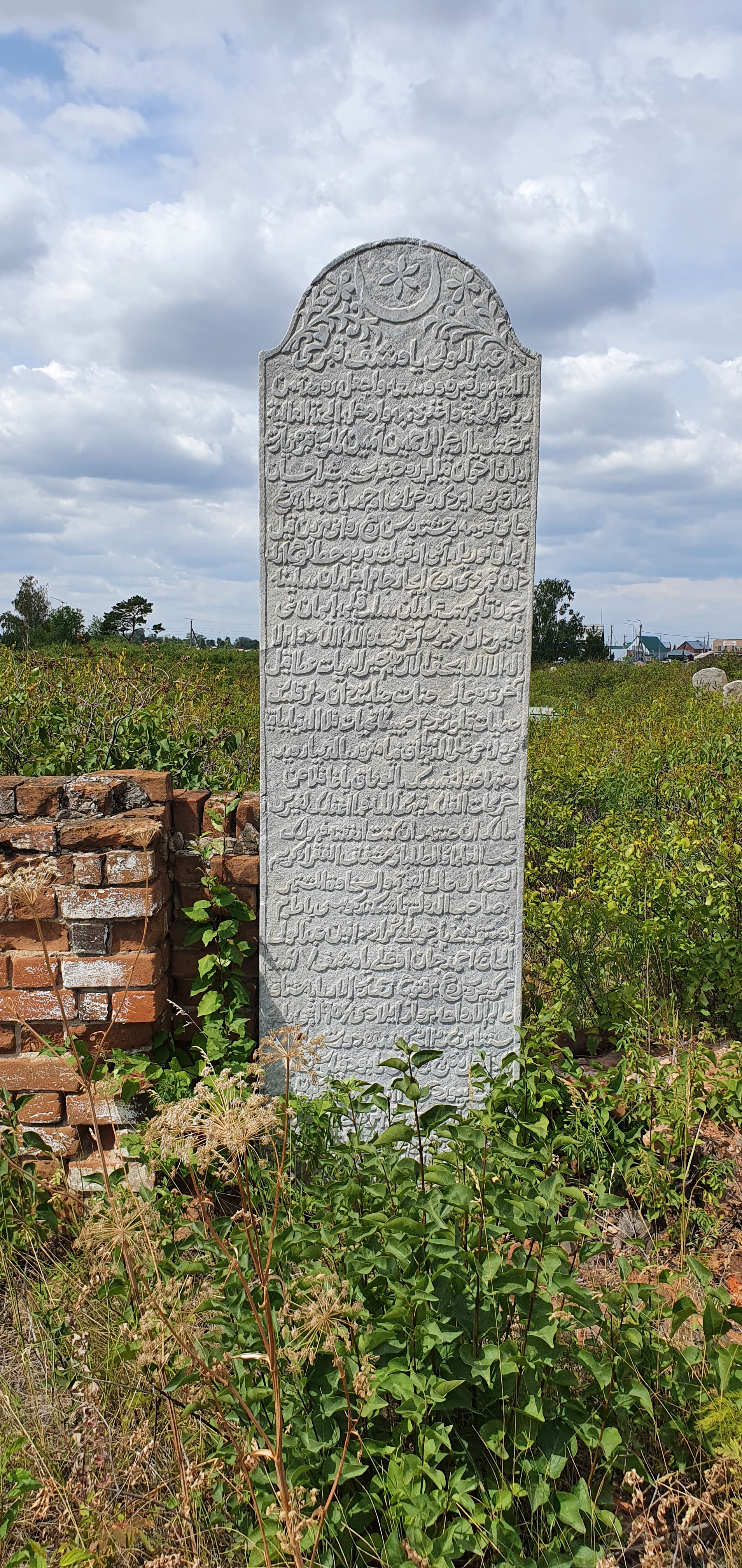 Tombstone of Abdulvali Yaushev, a Tatar merchant and member of the Yaushev merchant family